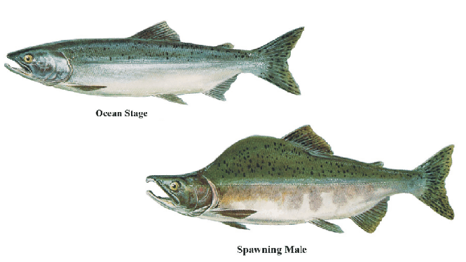 Ocean stage and spawning pink salmon